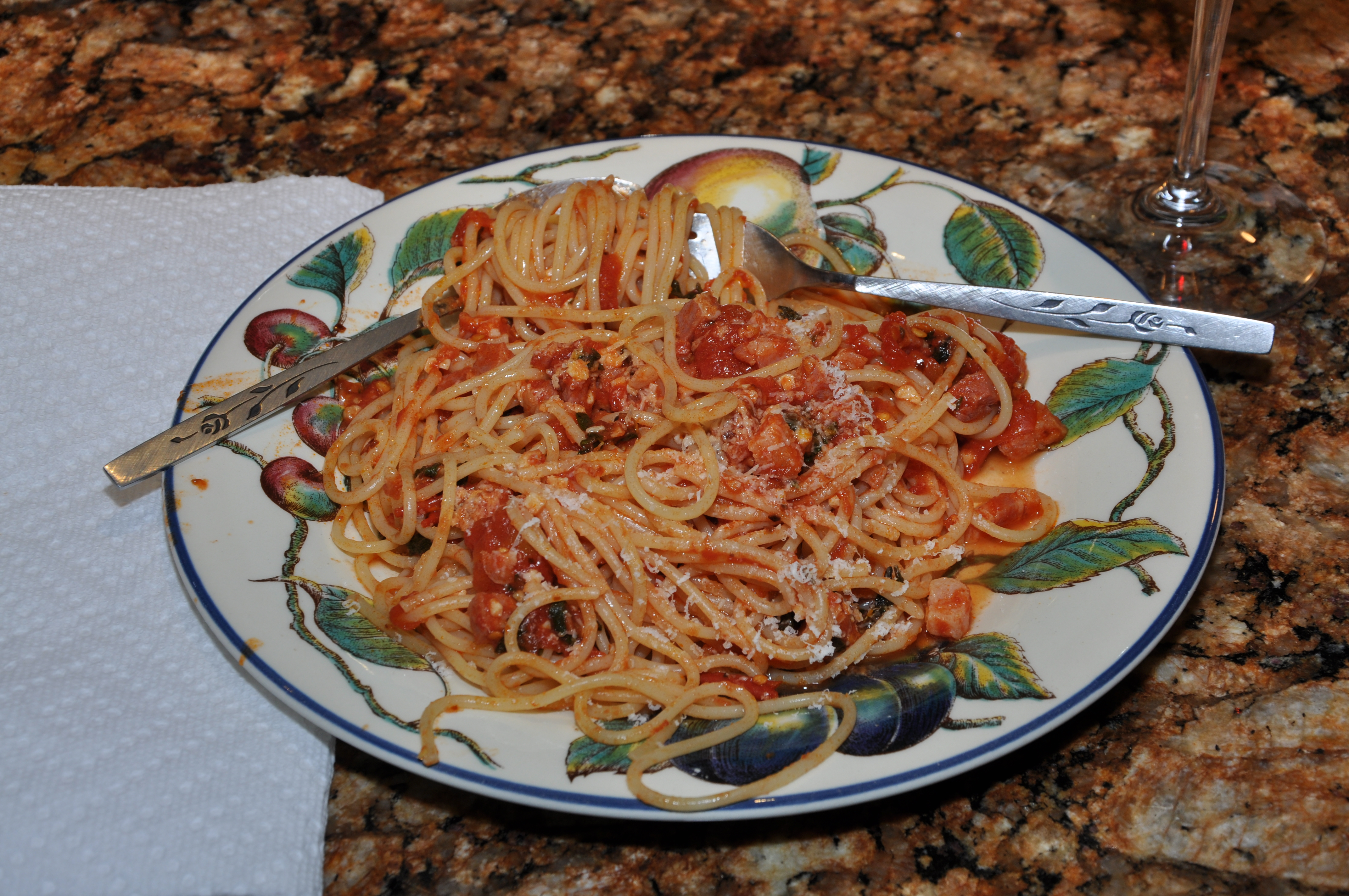 Spaghetti all'Amatriciana